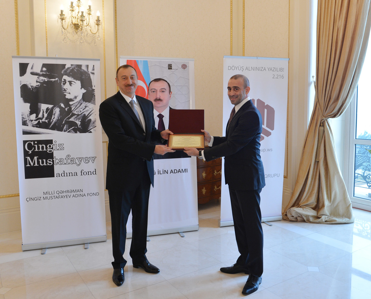 Ilham Aliyev received the Person of the Year – 2013 award of the Foundation of National Hero Chingiz Mustafayev and ANS Group